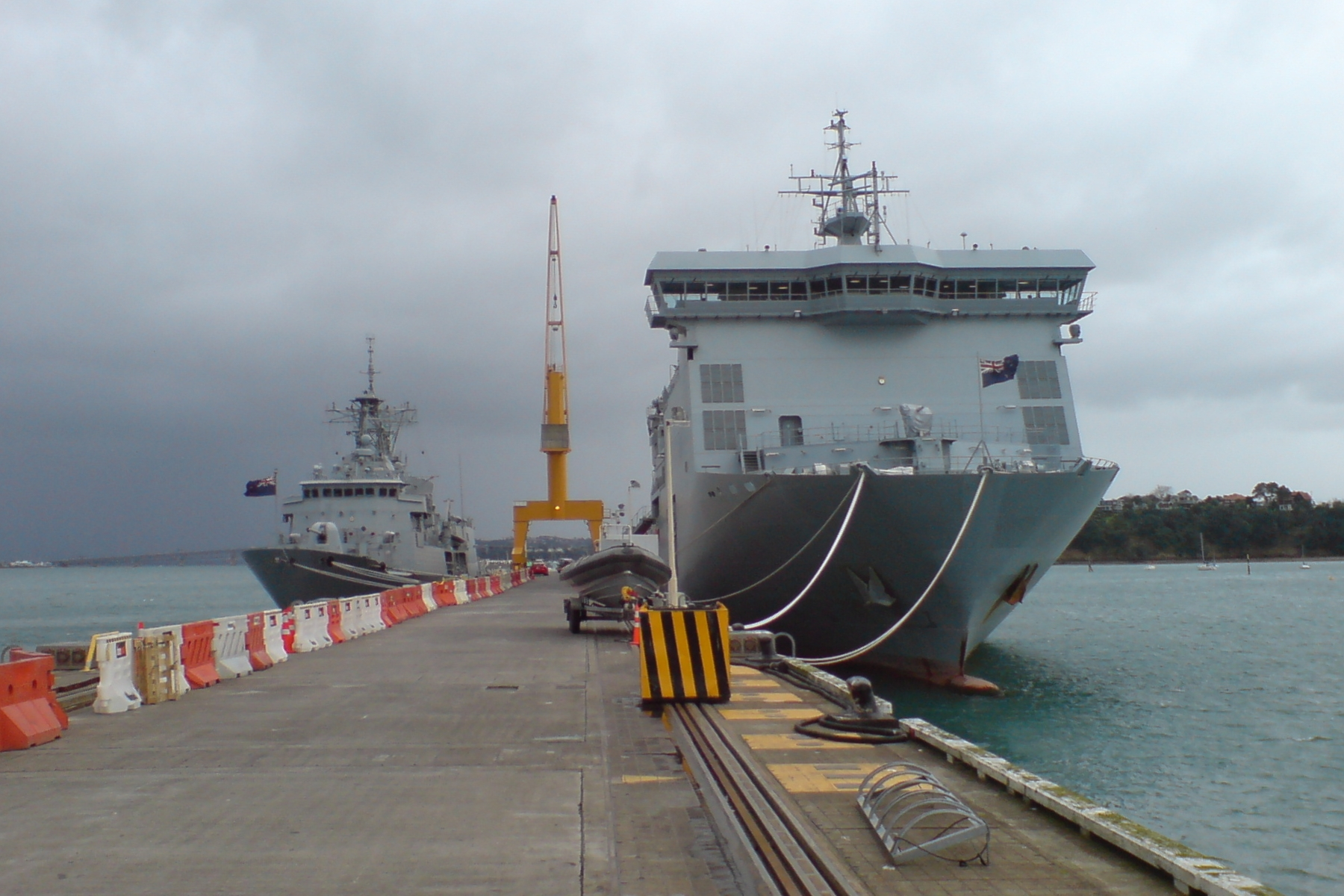 The HMNZ Te Kaha (frigate, left) and the HMNZS Canterbury (muti-role vessel, right) at the pier of the Devonport Naval Base, North Shore City, Auckland, New Zealand.